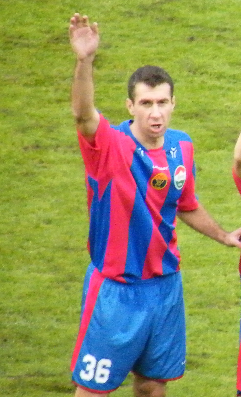 József Gáspár Hungarian association football player.